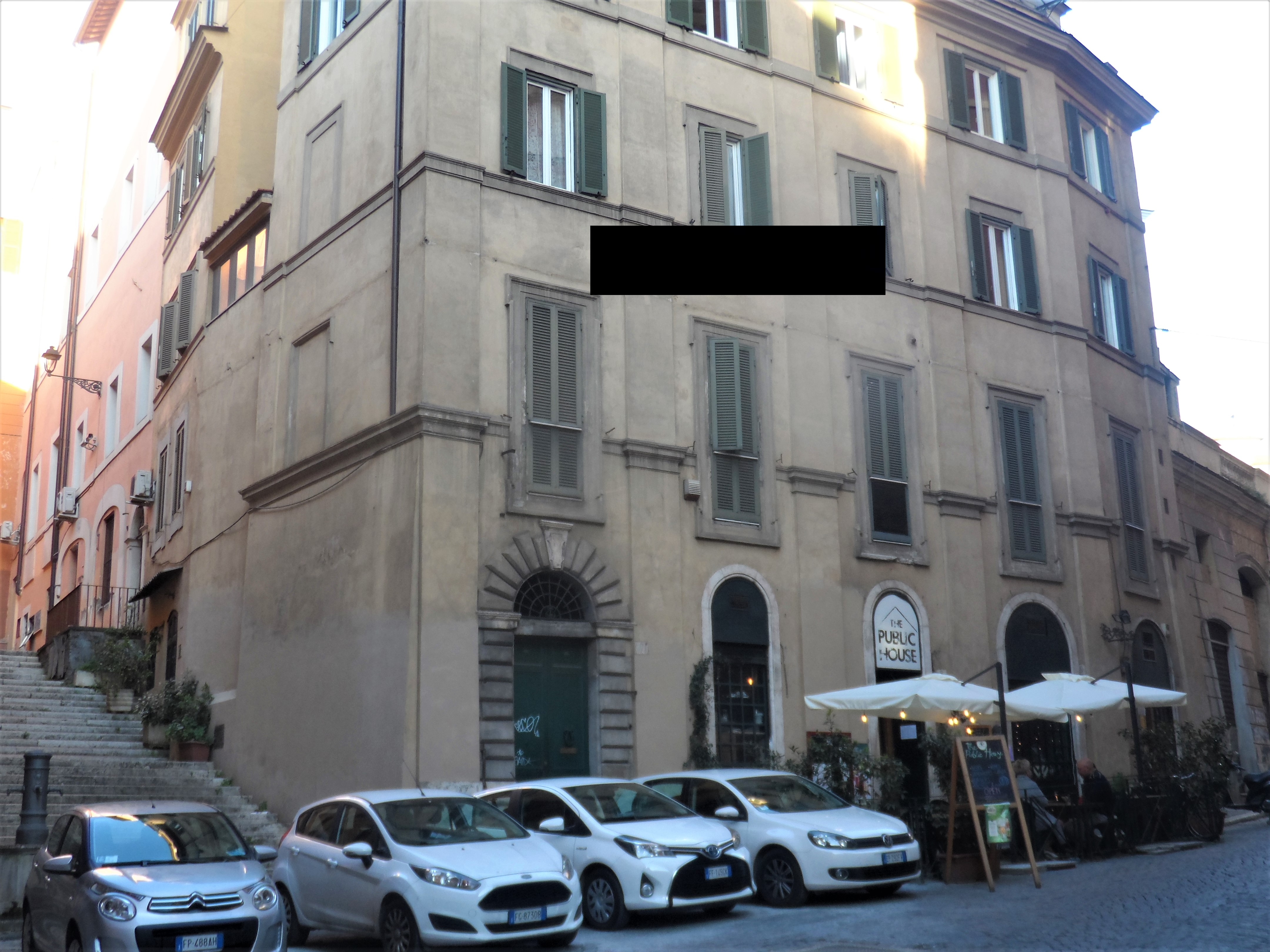 I soliti ignoti filming site